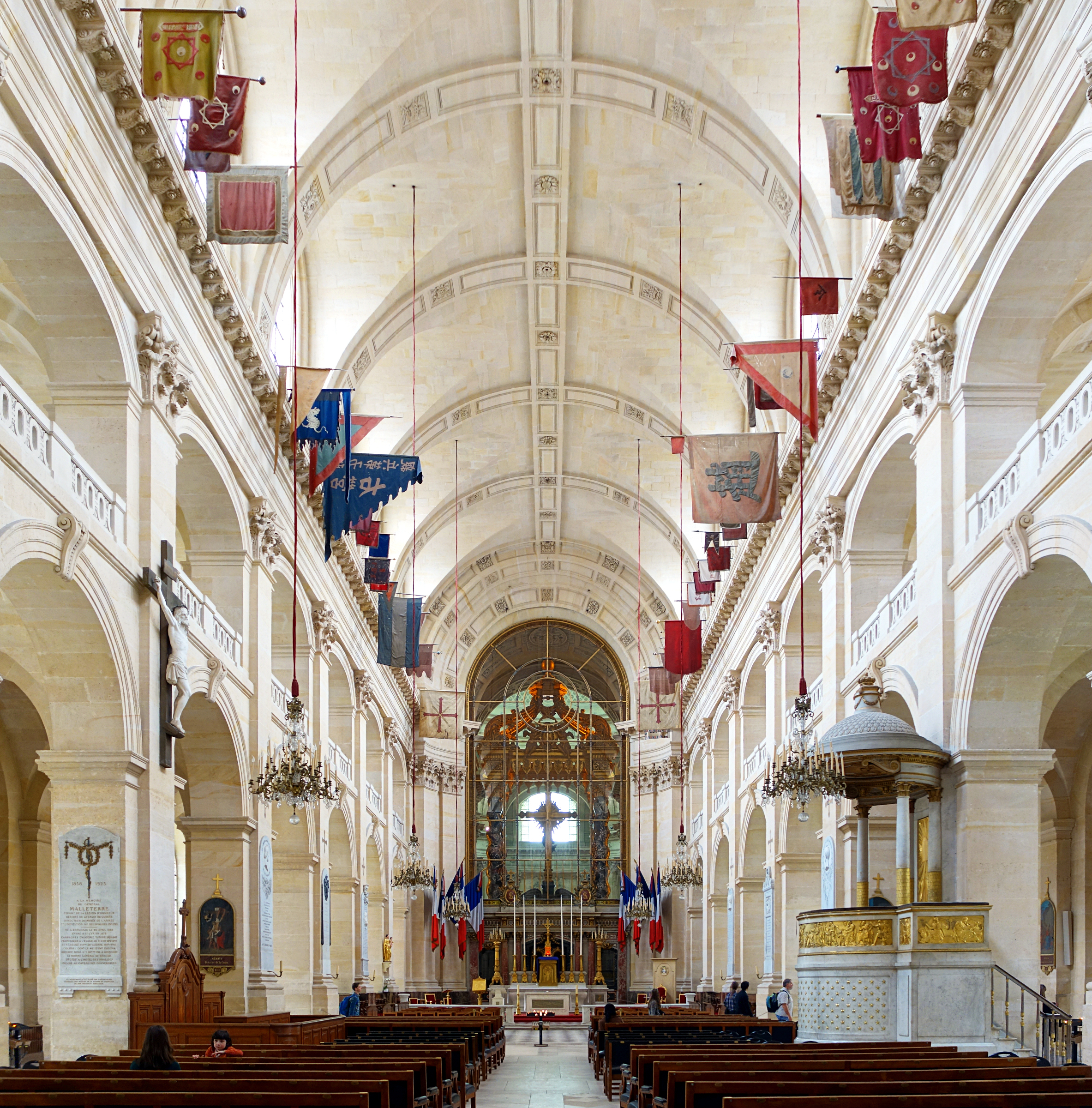 Nave of Saint-Louis-des-Invalides Cathedral, Paris, France.